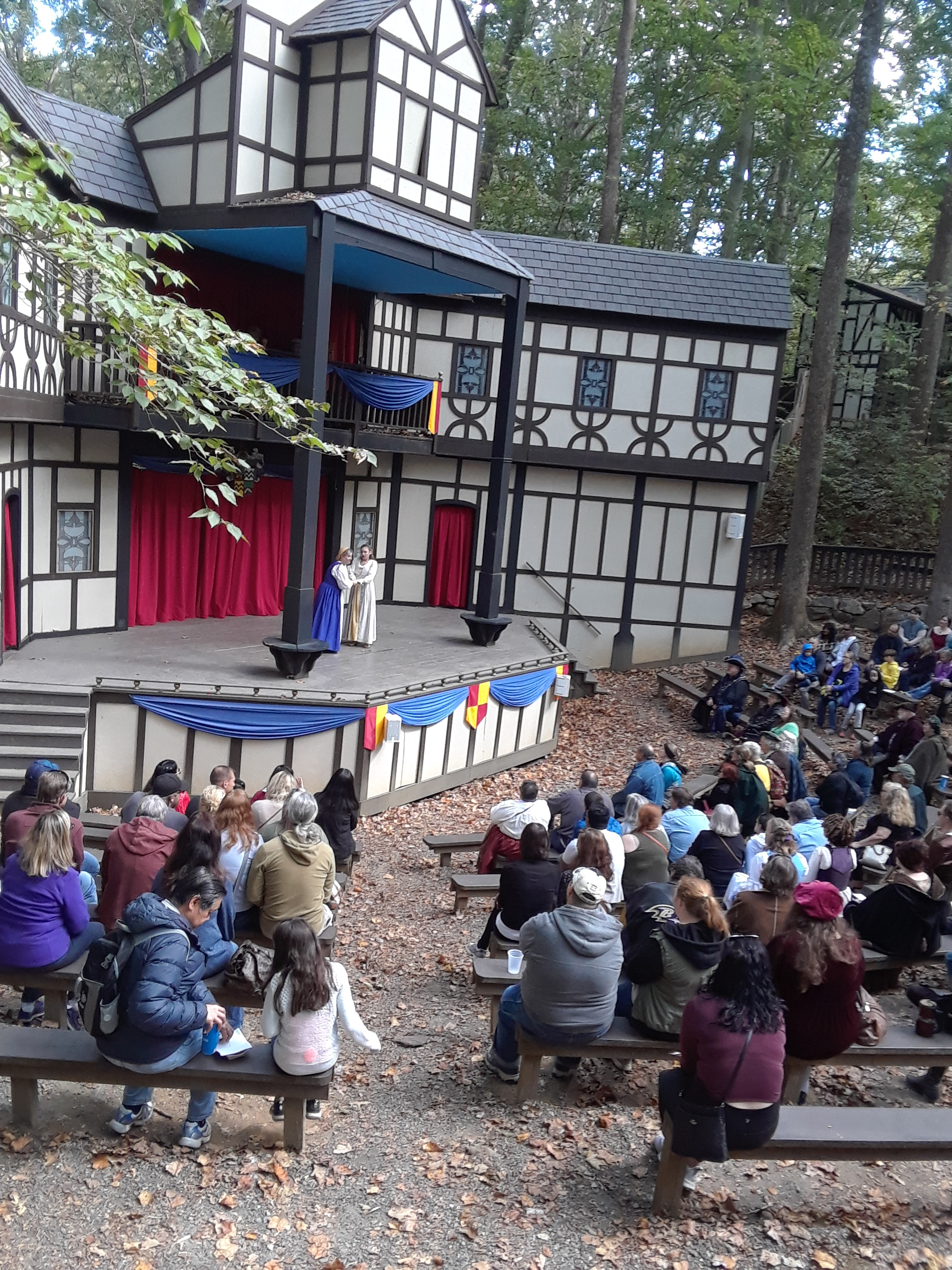 Visitors observe a Shakespearean play at the Maryland Renaissance Festival